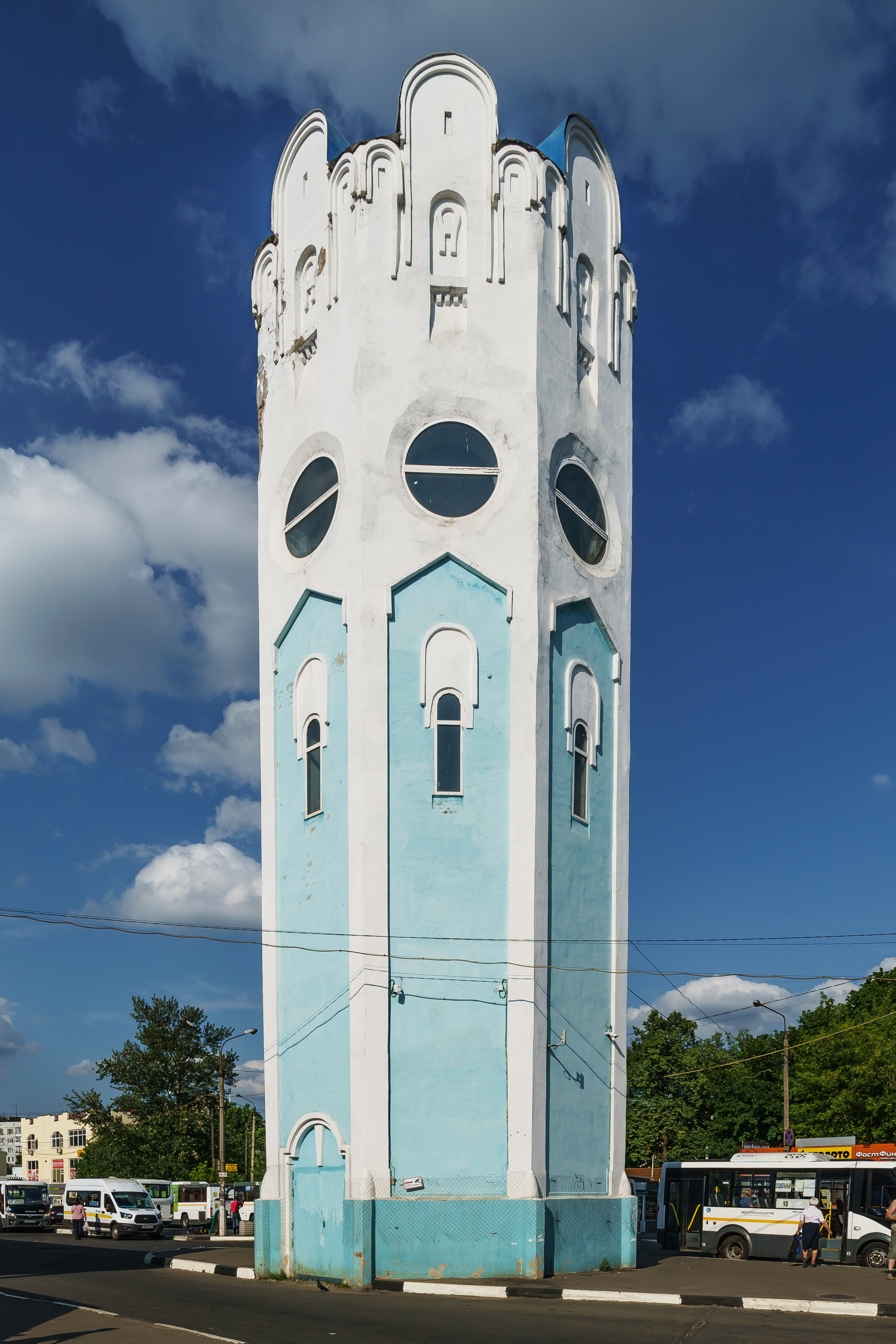 Historical water tower at the railway station in Pushkino, Moscow Oblast, Russia